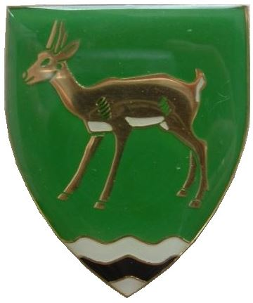 SADF era Oribi Commando emblem